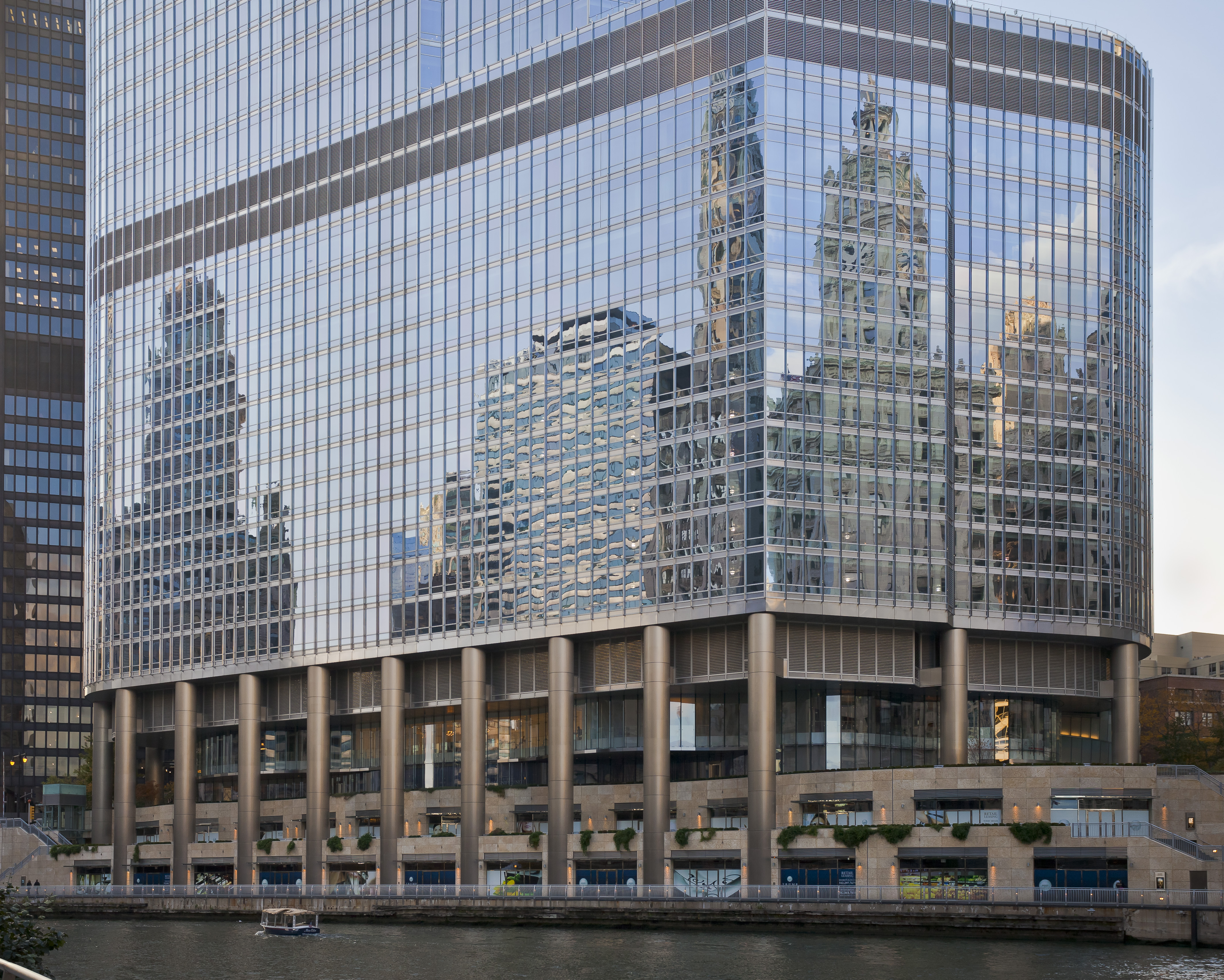 Trump International Hotel and Tower, Chicago, Illinois, USA